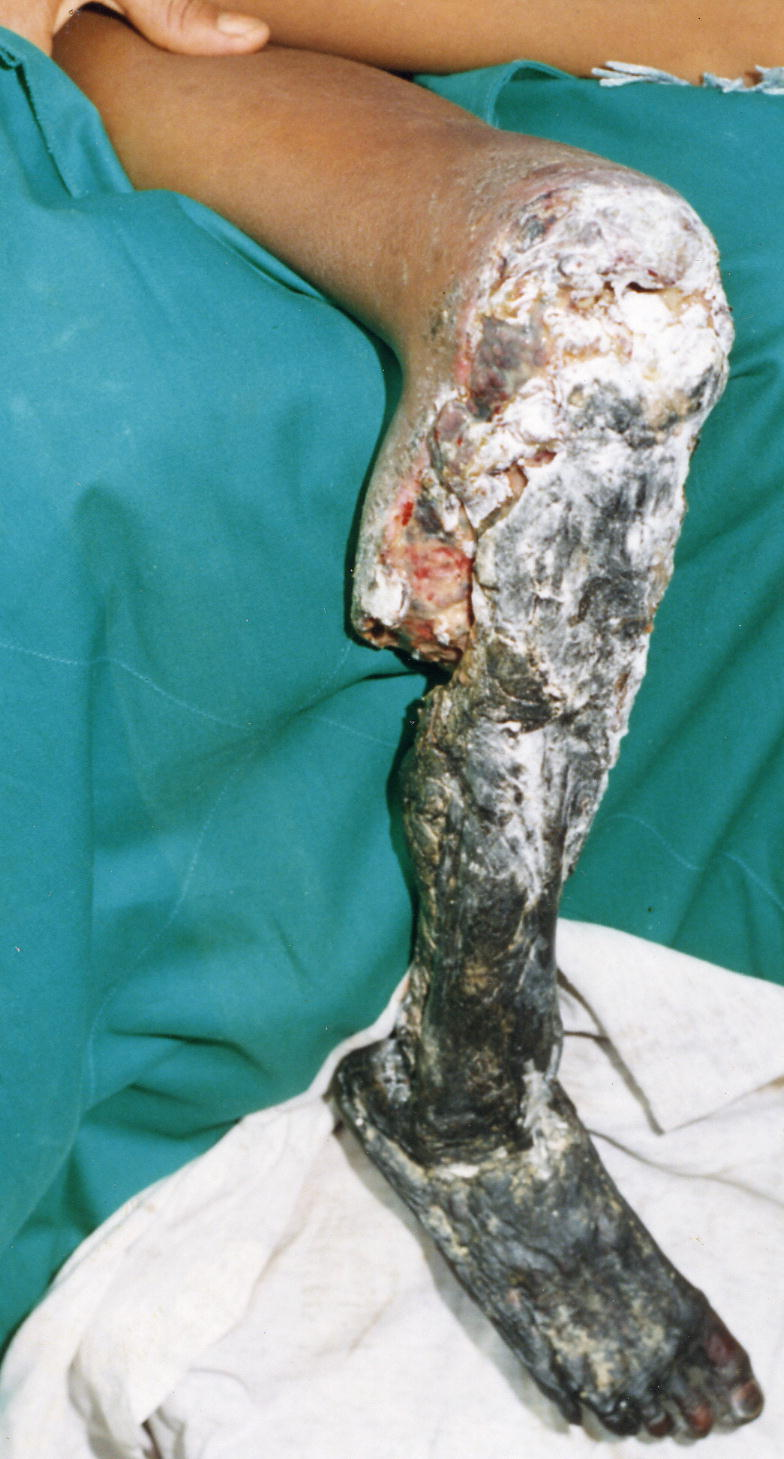 Extensive tissue necrosis of the lower limb in an 11-year-old boy who had been bitten two weeks earlier by a Bothrops asper (viper) in Ecuador. The degree of necrosis is sufficiently severe that some form of surgical amputation above the knee would have been inevitable.